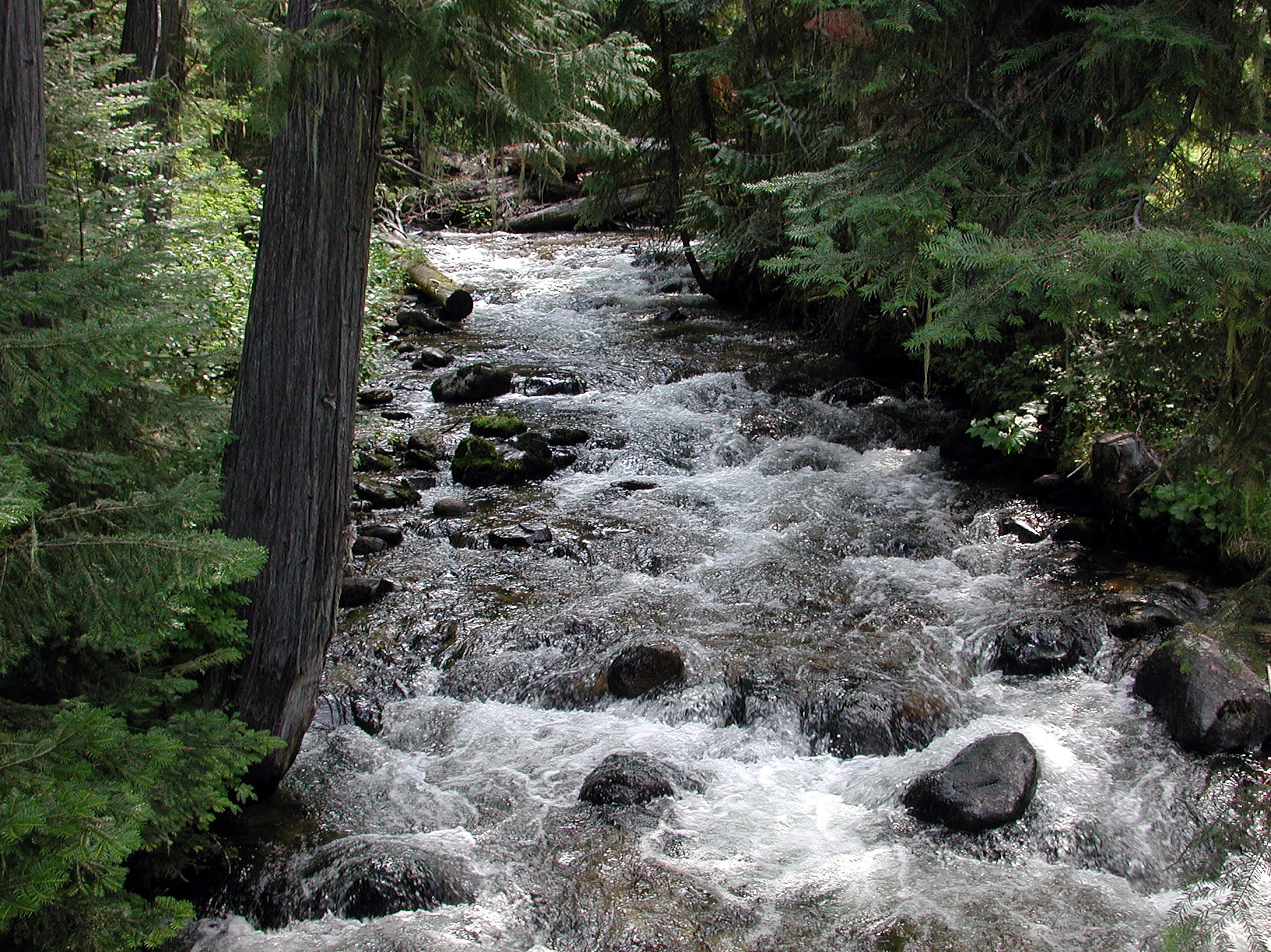 Walton Creek, a small tributary of the Lochsa River in northeastern Idaho, flows through the woods slightly upstream of its confluence with the larger stream.